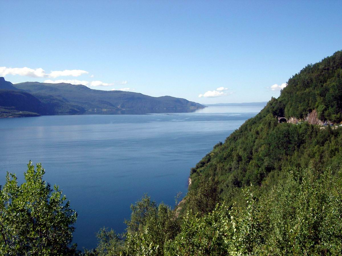 South of Fauske in Nordland county (fylke), Norway. To the right you can see the southwest entrance to the road tunnel Kvænflågtunnelen.